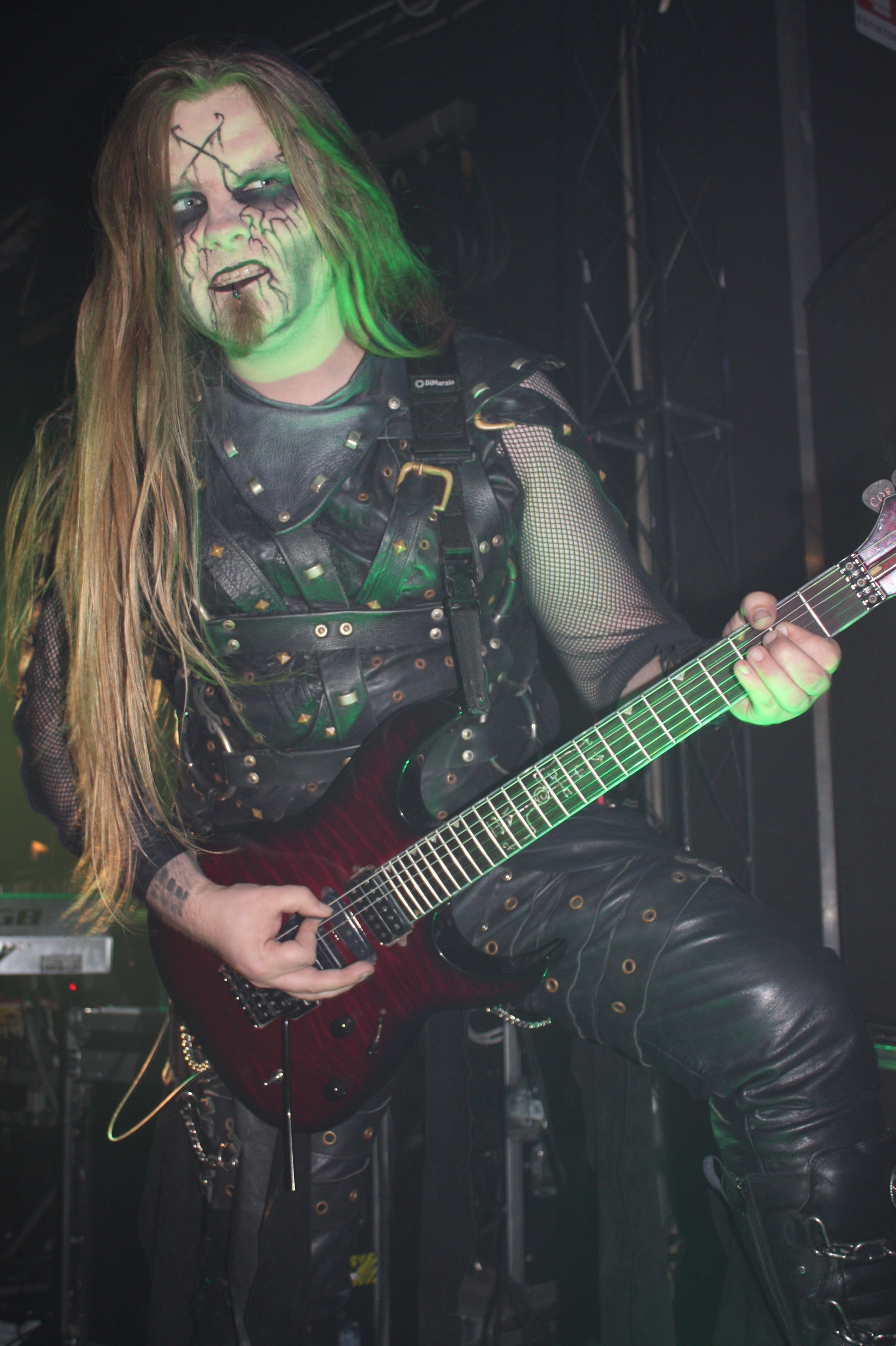 James standing in on guitars for Charles Hedger on 2009 tour